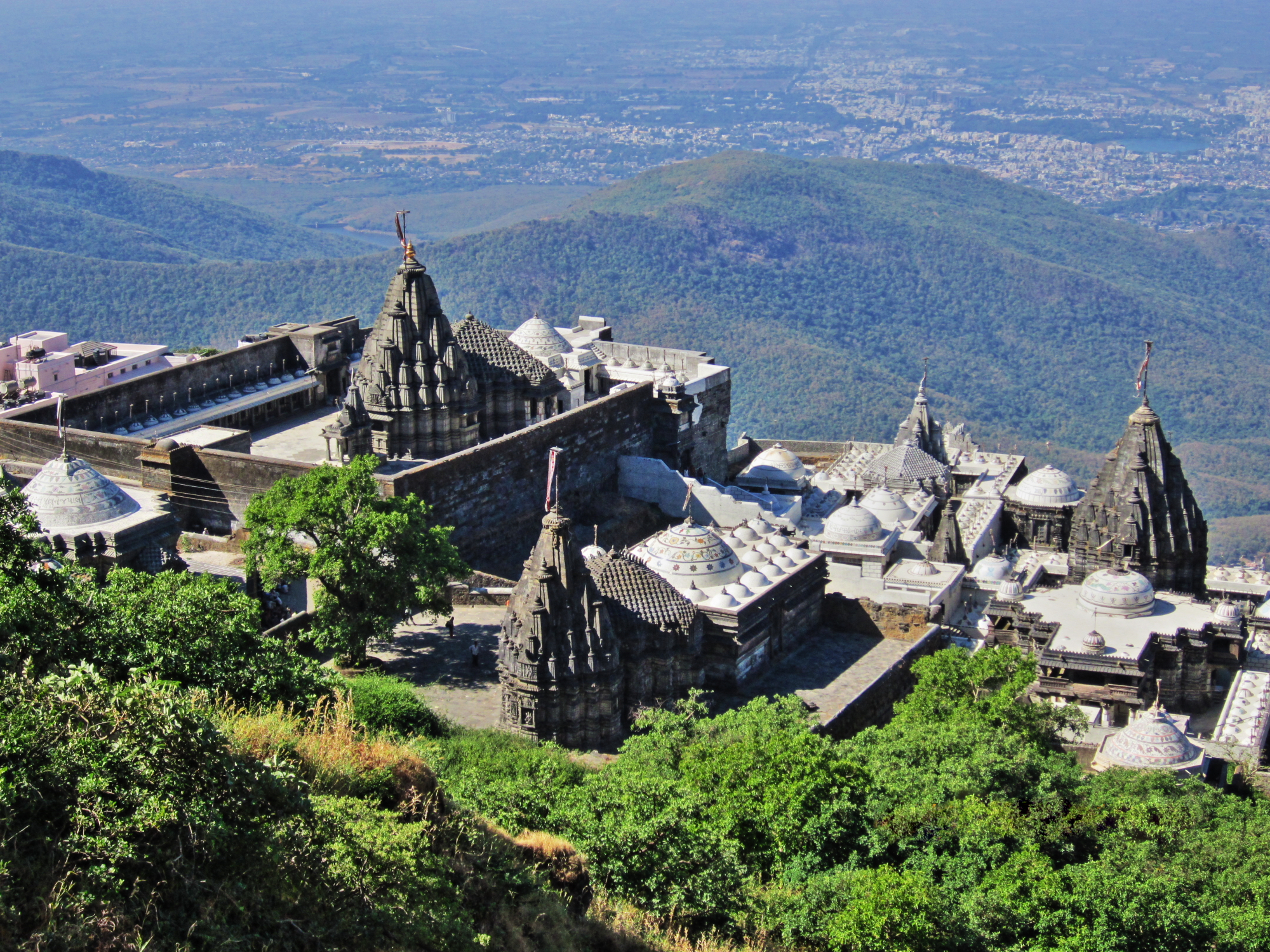 Girnar mountain is highest mountain of Gujarat state, India. On the mountain there are so many temples of Hindu and Jain religion. Some of them are in this photo. Photo is captured from much above than these temples during summit of Girnar mountain. In this photo main Jain temple on Girnar mountain - Neminath Derasar is also featured.